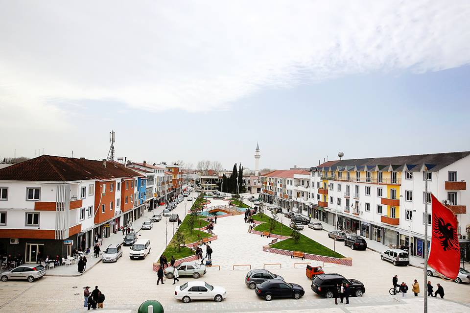 shijaku